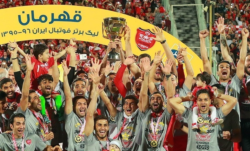 Persepolis F.C. title winning ceremony